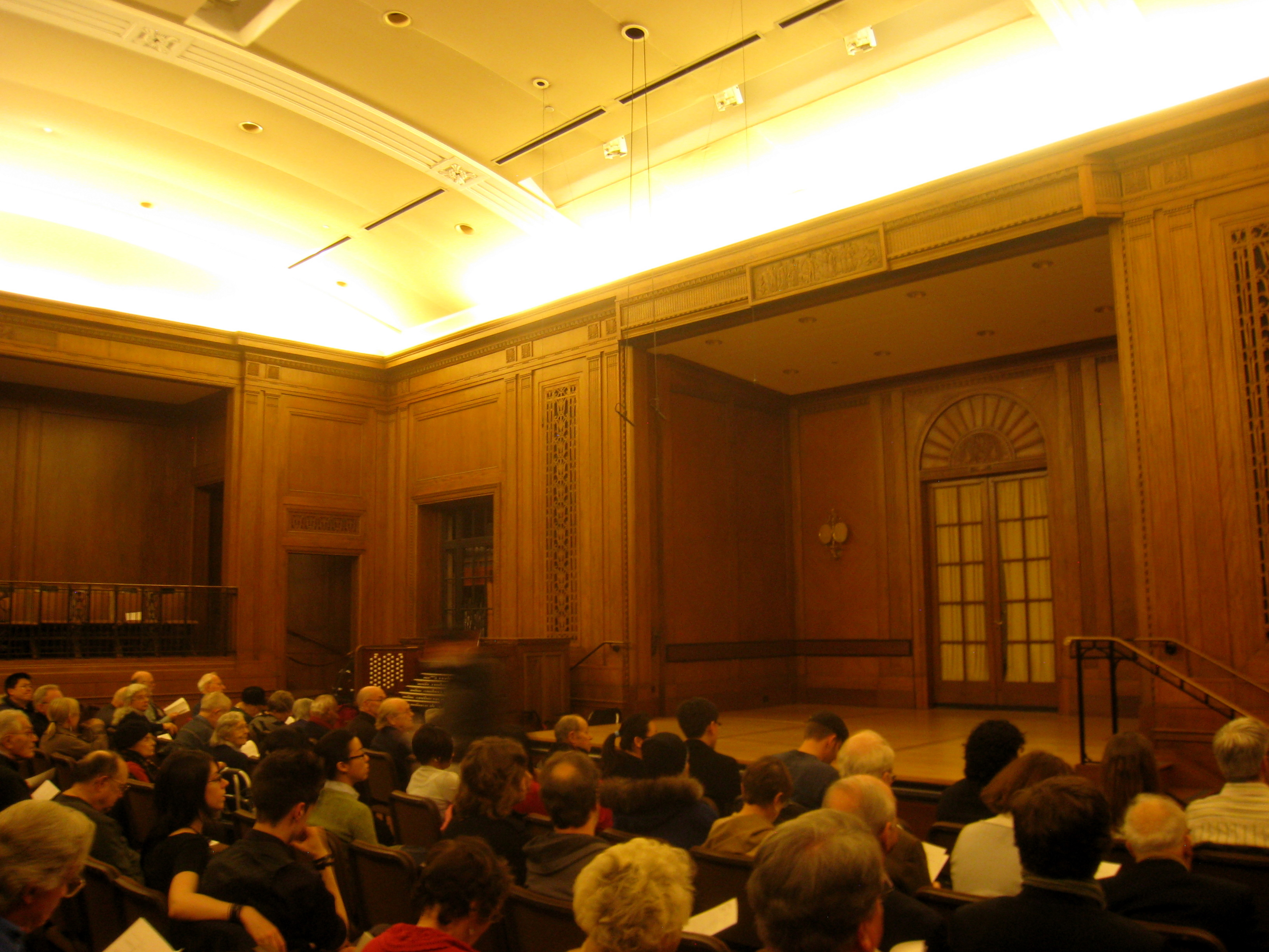 Interior view of the Field Concert Hall, Curtis Institute of Music, Rittenhouse Square, Philadelphia, Pennsylvania, USA.